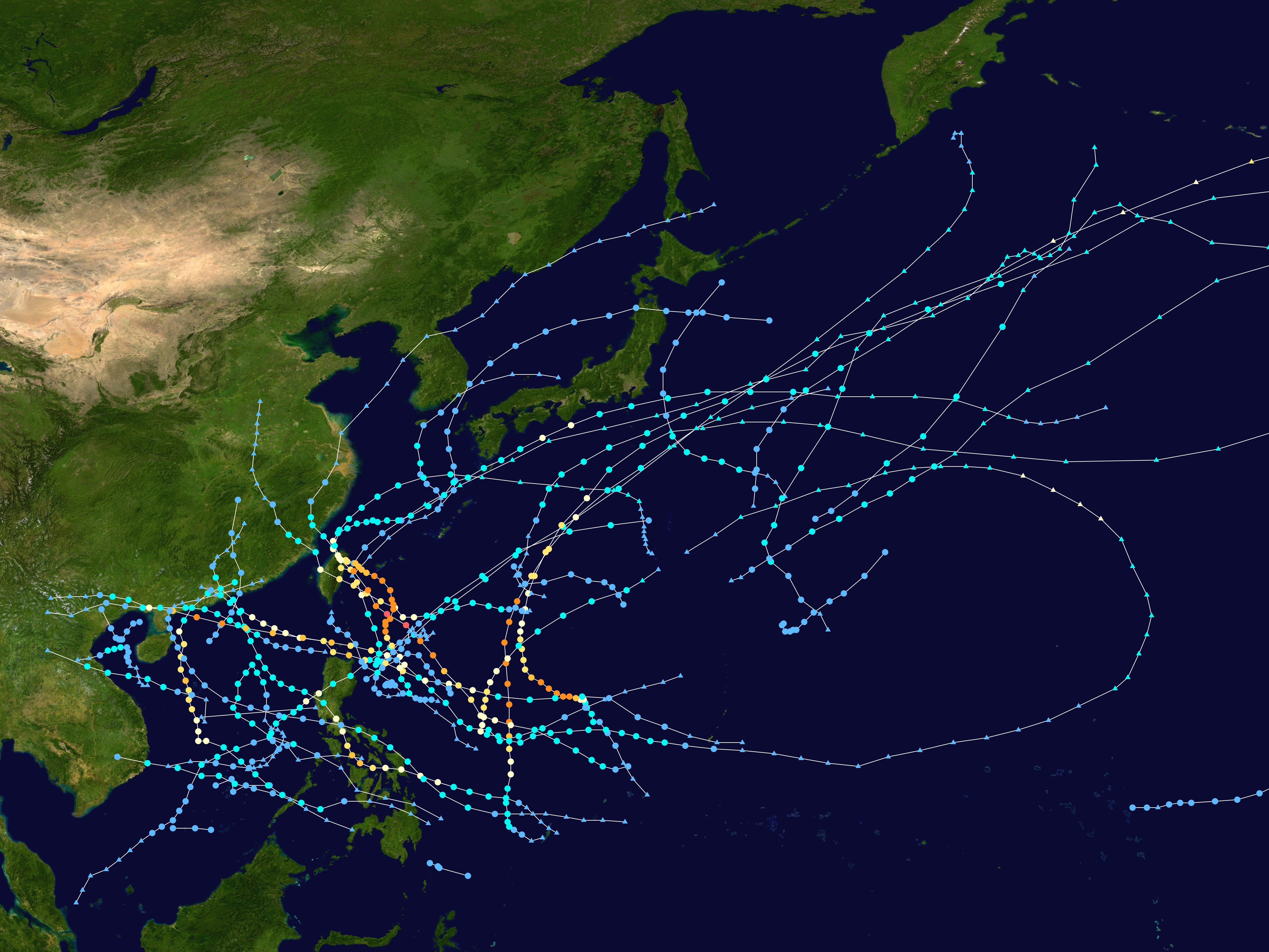 This map shows the tracks of all tropical cyclones in the 2008 Pacific typhoon season. The points show the location of each storm at 6-hour intervals. The colour represents the storm's maximum sustained wind speeds as classified in the Saffir-Simpson Hurricane Scale (see below), and the shape of the data points represent the type of the storm. Saffir–Simpson scale Tropical depression≤38 mph≤62 km/h Category 3111–129 mph178–208 km/h Tropical storm39–73 mph63–118 km/h Category 4130–156 mph209–251 km/h Category 174–95 mph119–153 km/h Category 5≥157 mph≥252 km/h Category 296–110 mph154–177 km/h Unknown Storm type Tropical cyclone Subtropical cyclone Extratropical cyclone / Remnant low / Tropical disturbance / Monsoon depression